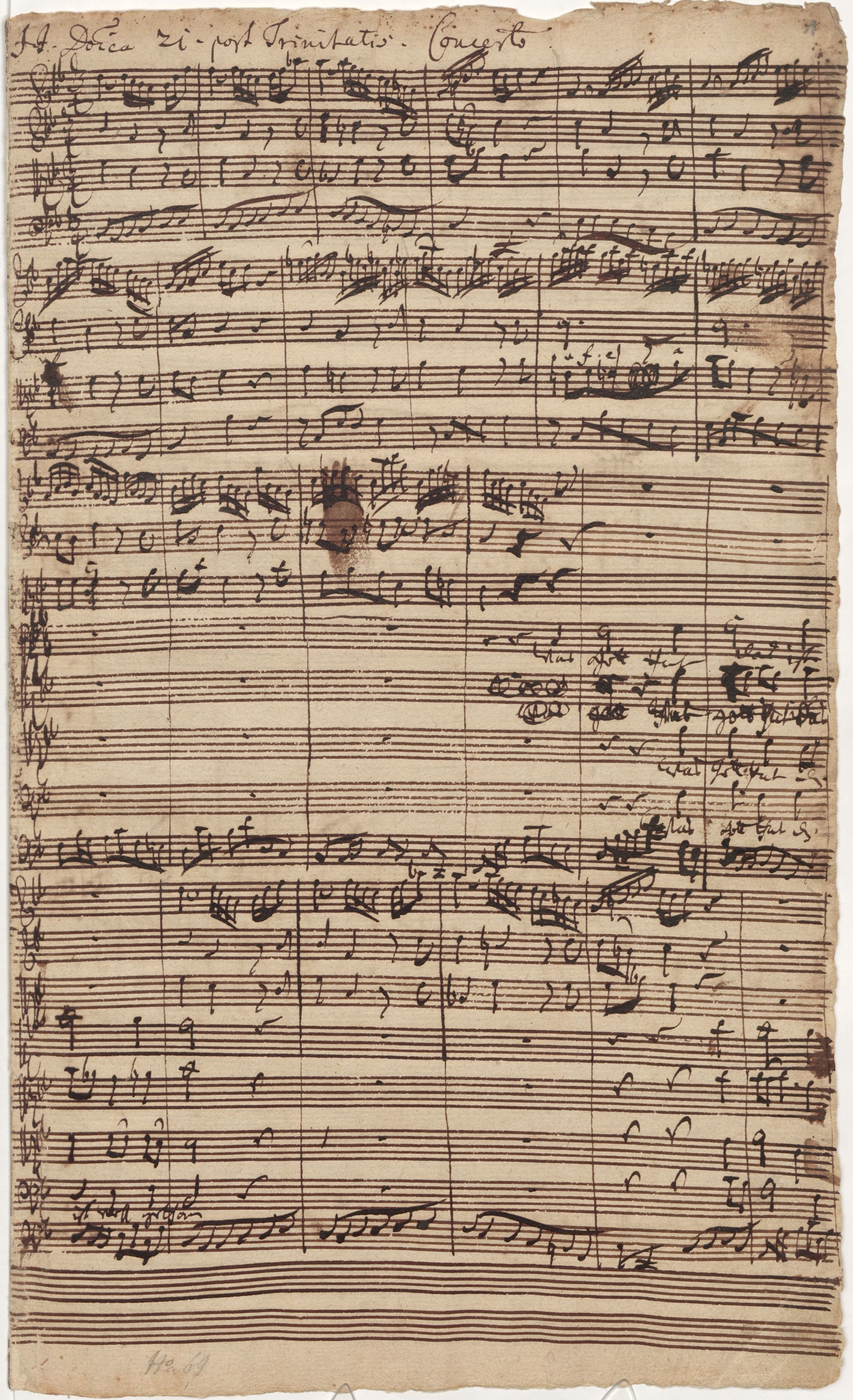 First page of autograph manuscript of the cantata Was Gott tut, das ist wohlgetan, BWV 98 by Johann Sebastian Bach